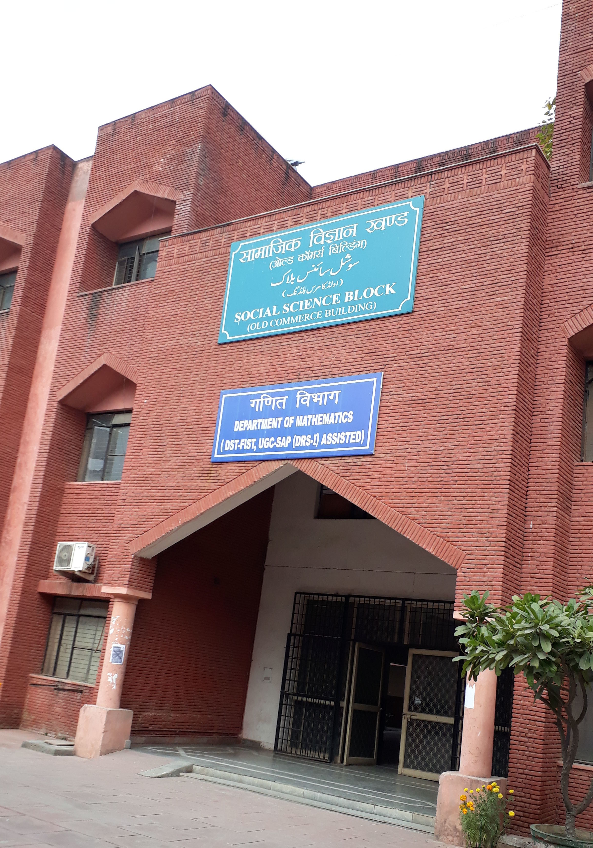 Social Science Block of Jamia Millia Islamia